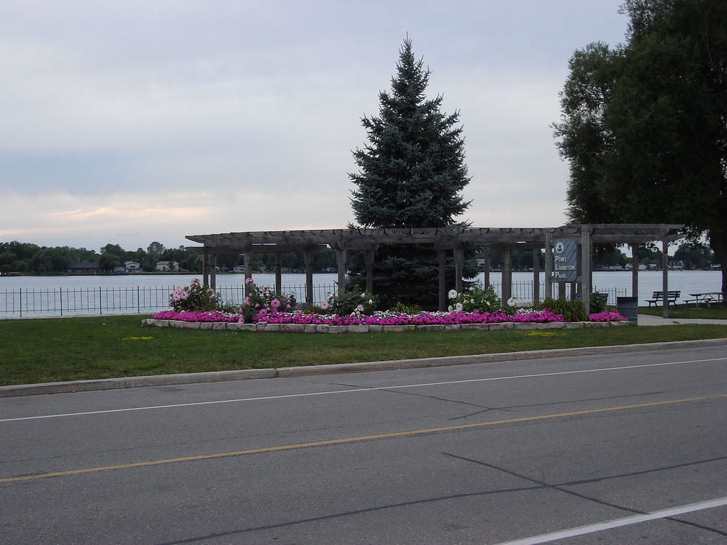 Photo by Ben Hazzard (uploader and photographer)